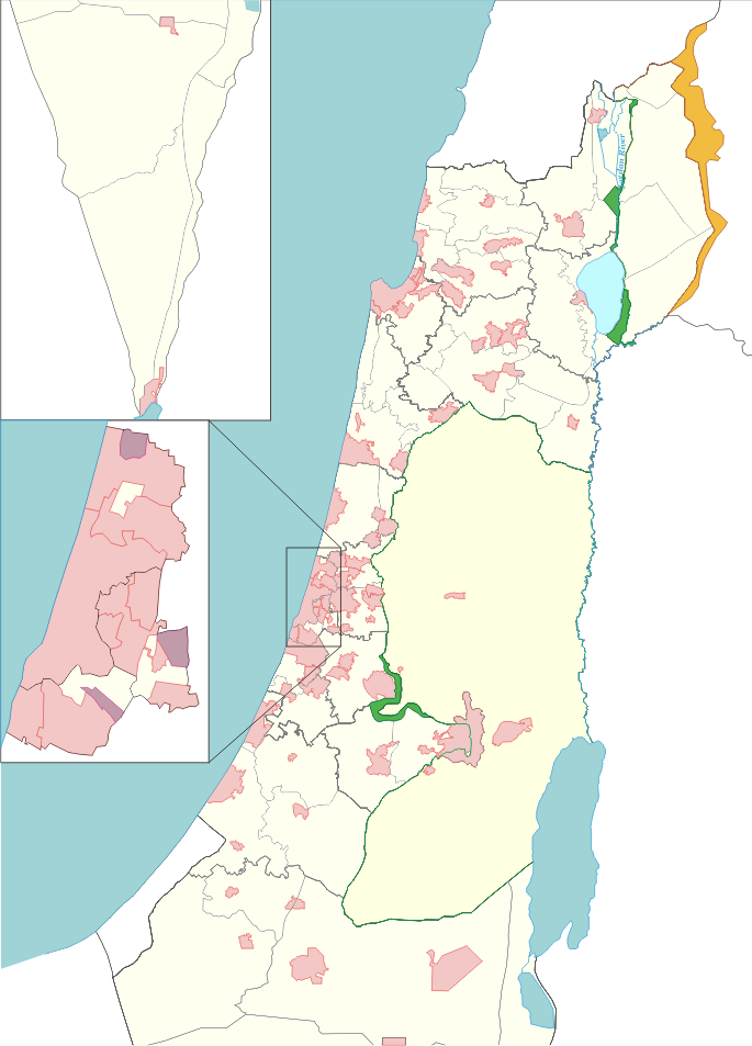 Map of Israel and its municipalities for Wikipedia (no text). Local councils not shown!